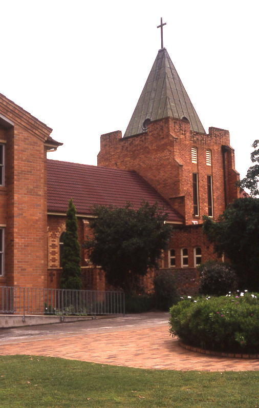 St John's Church, Cessnock, Australia